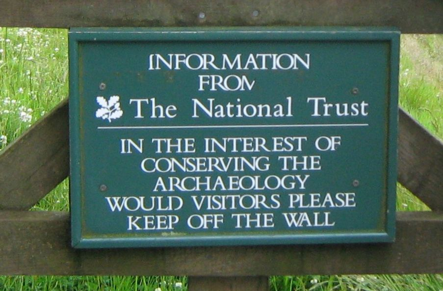 Sign by the Hadrians Wall in England. July 10, 2011.